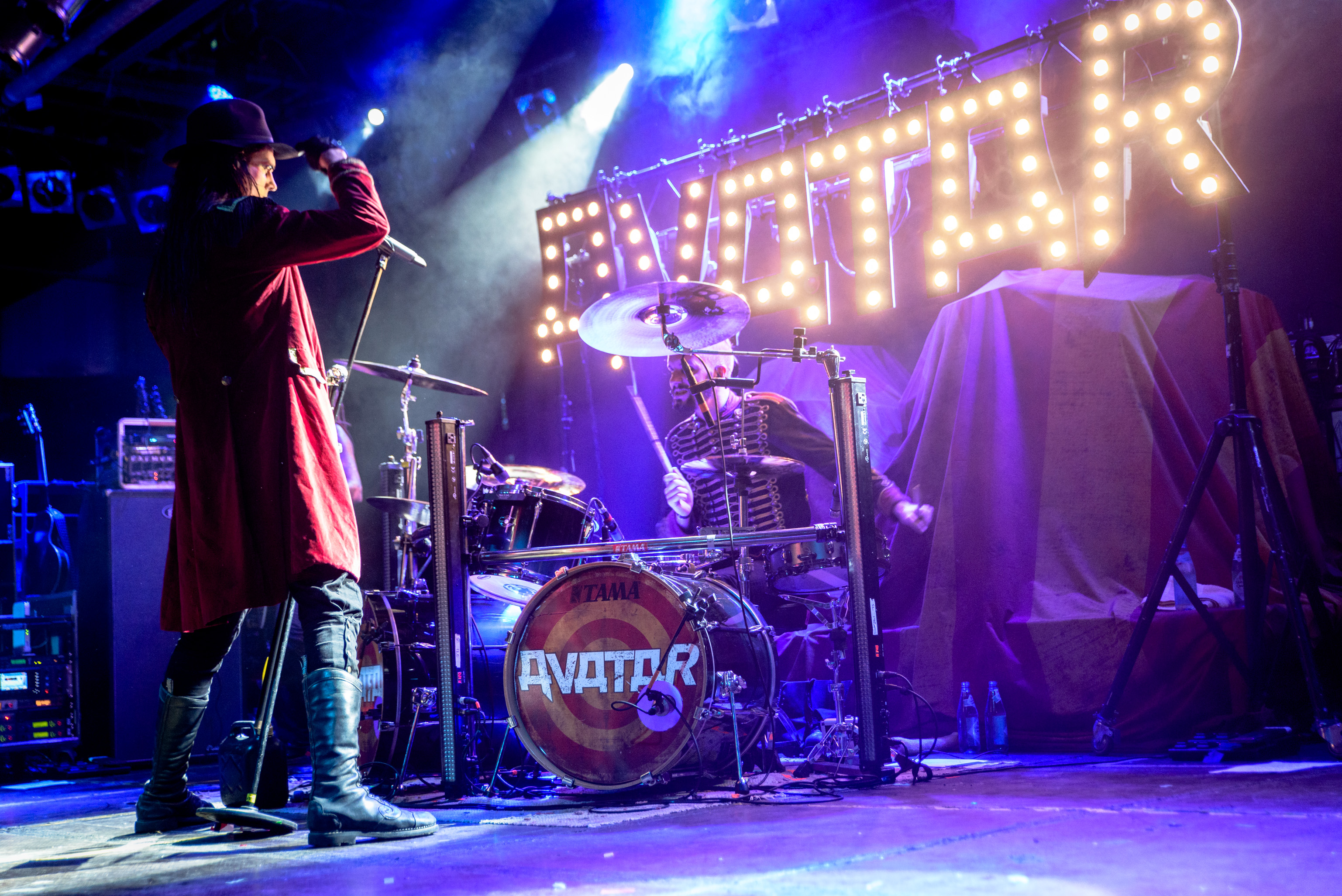 Avatar Live @ Free & Easy Festival 2015